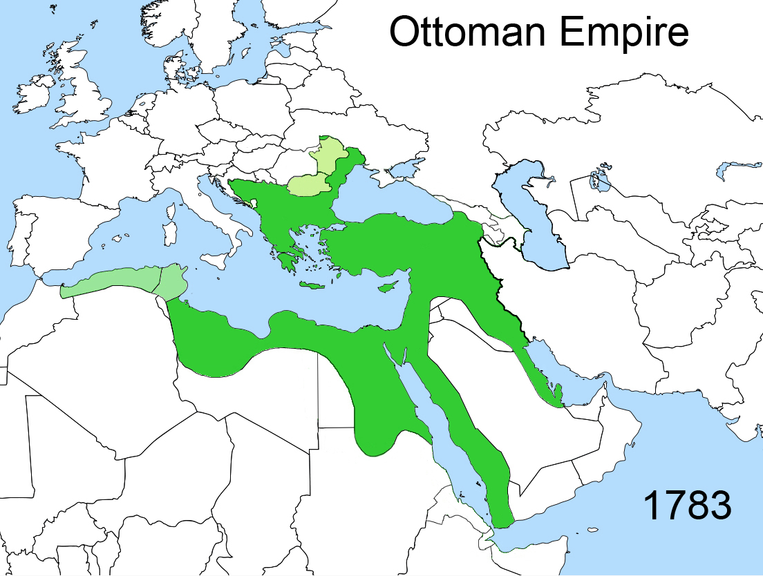 Territorial changes of the Ottoman Empire